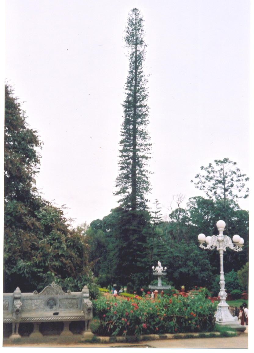 A view of Lal Bagh garden